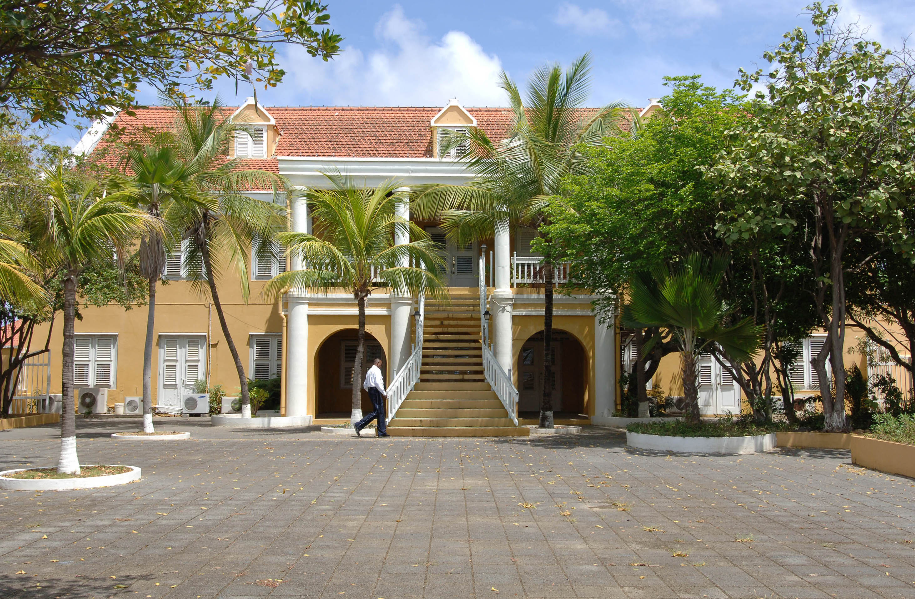 PASANGRAHAN. BUILT ABOUT 1890 AS THE HOME OF THE DEBROT FAMILY. IN 1921, IT WAS CONVERTED INTO A GOVERNMENT GUEST HOUSE OF VISITING OFFICIALS. LATER IT BECAME THE OFFICE OF THE WATER SUPPLY AND PUBLIC WORKS. IT WAS RESTORED, AND THEN REOPENED IN 1980 AS THE ISLAND PARLIAMENT HOUSE WHERE THE ISLAND COUNCIL MEETS